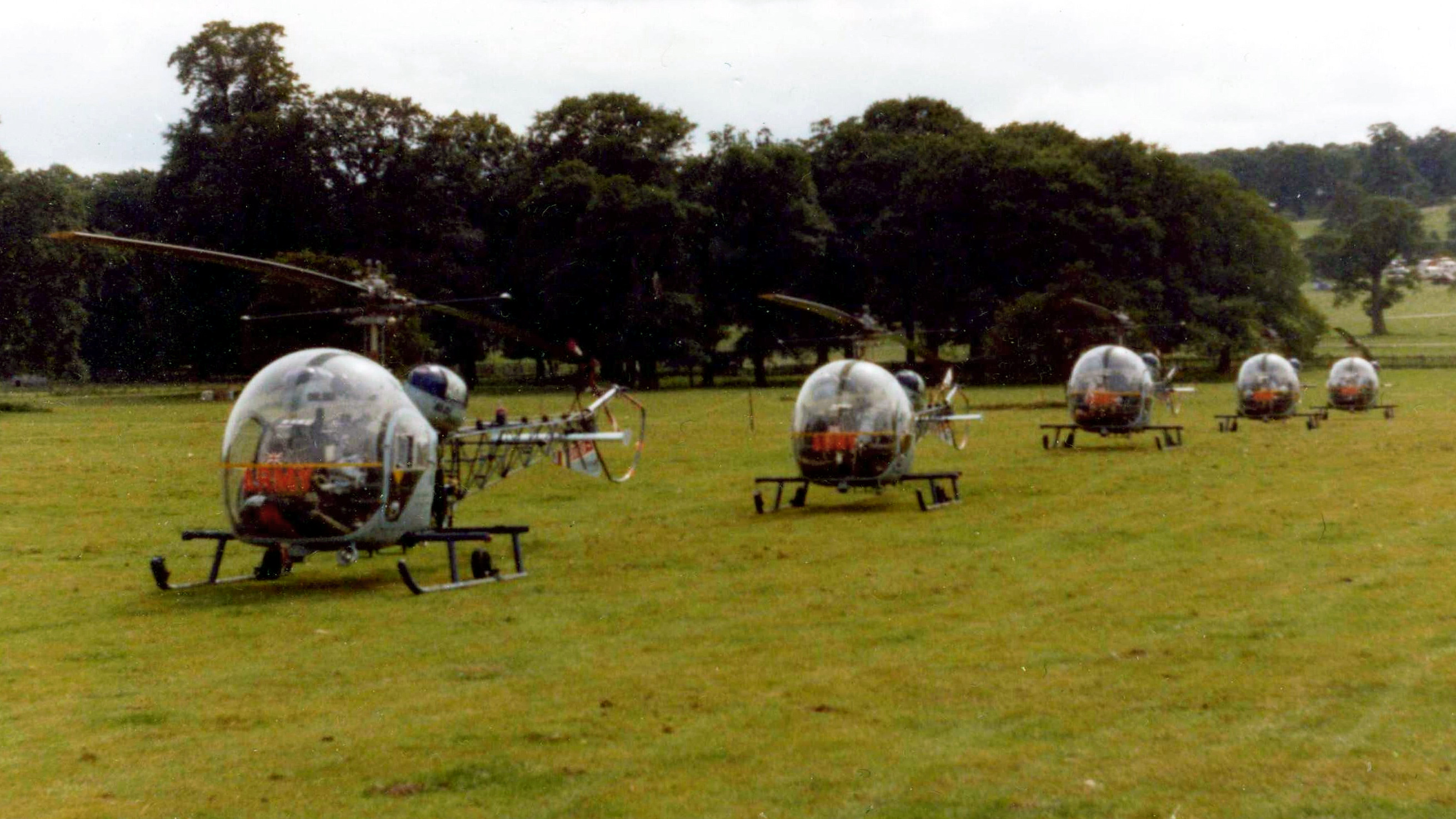 Five Sioux AH1 of the Army Air Corps Blue Eagles demonstration team at the Daily Express International Balloon Meet at Weston Park, Shropshire, England. (Four are Westland-Bell Sioux and one is an Agusta-Bell Sioux) (Ignore the 1973 in the file name the image is a scan from a photo I took in 1975)